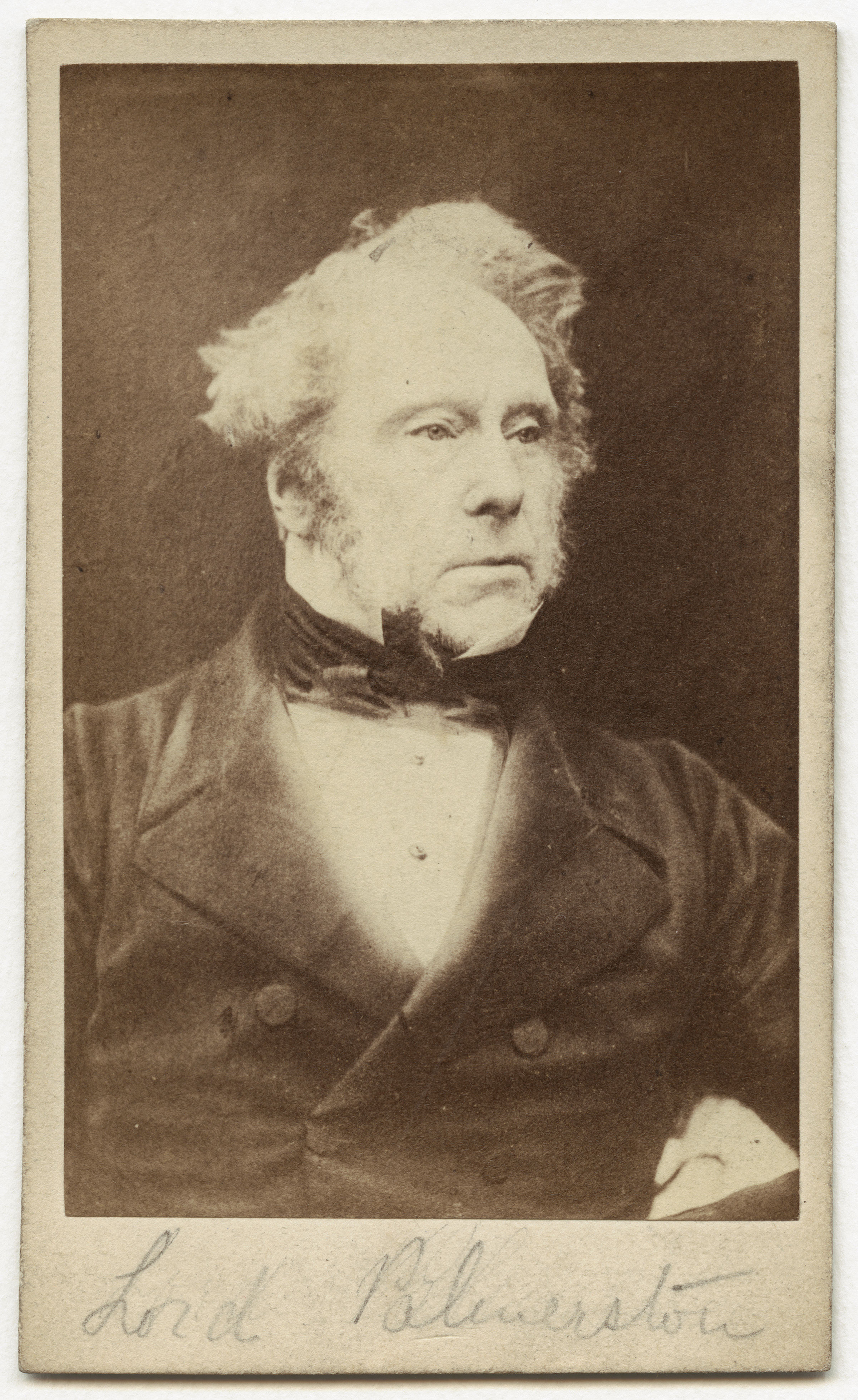 Portrait of Henry John Temple (1784–1865)